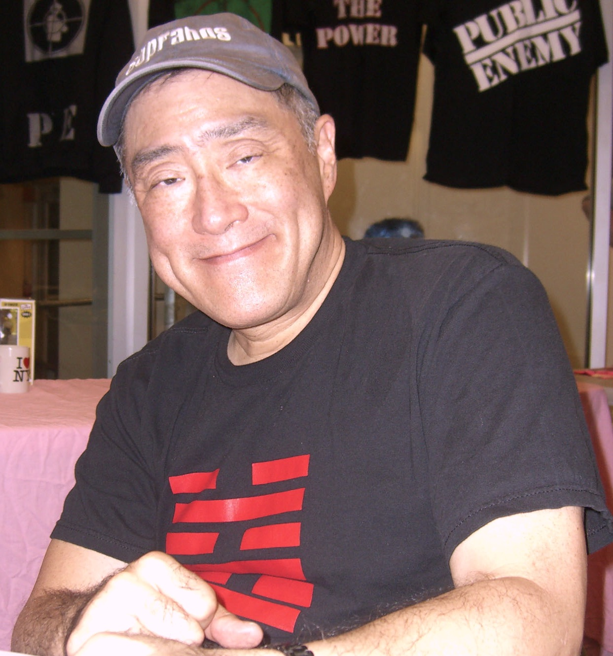 Comic book creator Larry Hama at the November 2008 Big Apple Convention in Manhattan.